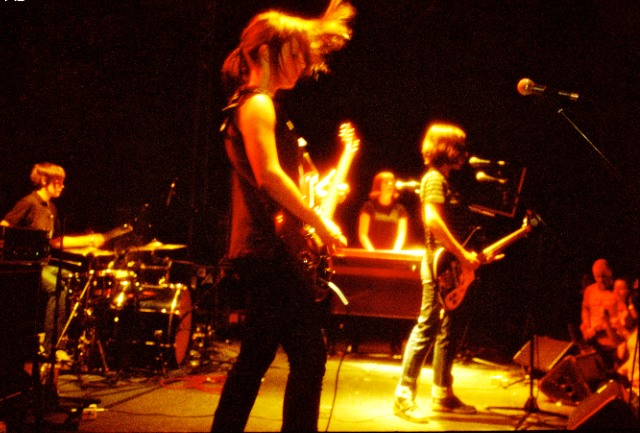 Electrelane performing at the Pavilion Theatre in Brighton, December 2007. This was the band's last performance before their indefinite hiatus.